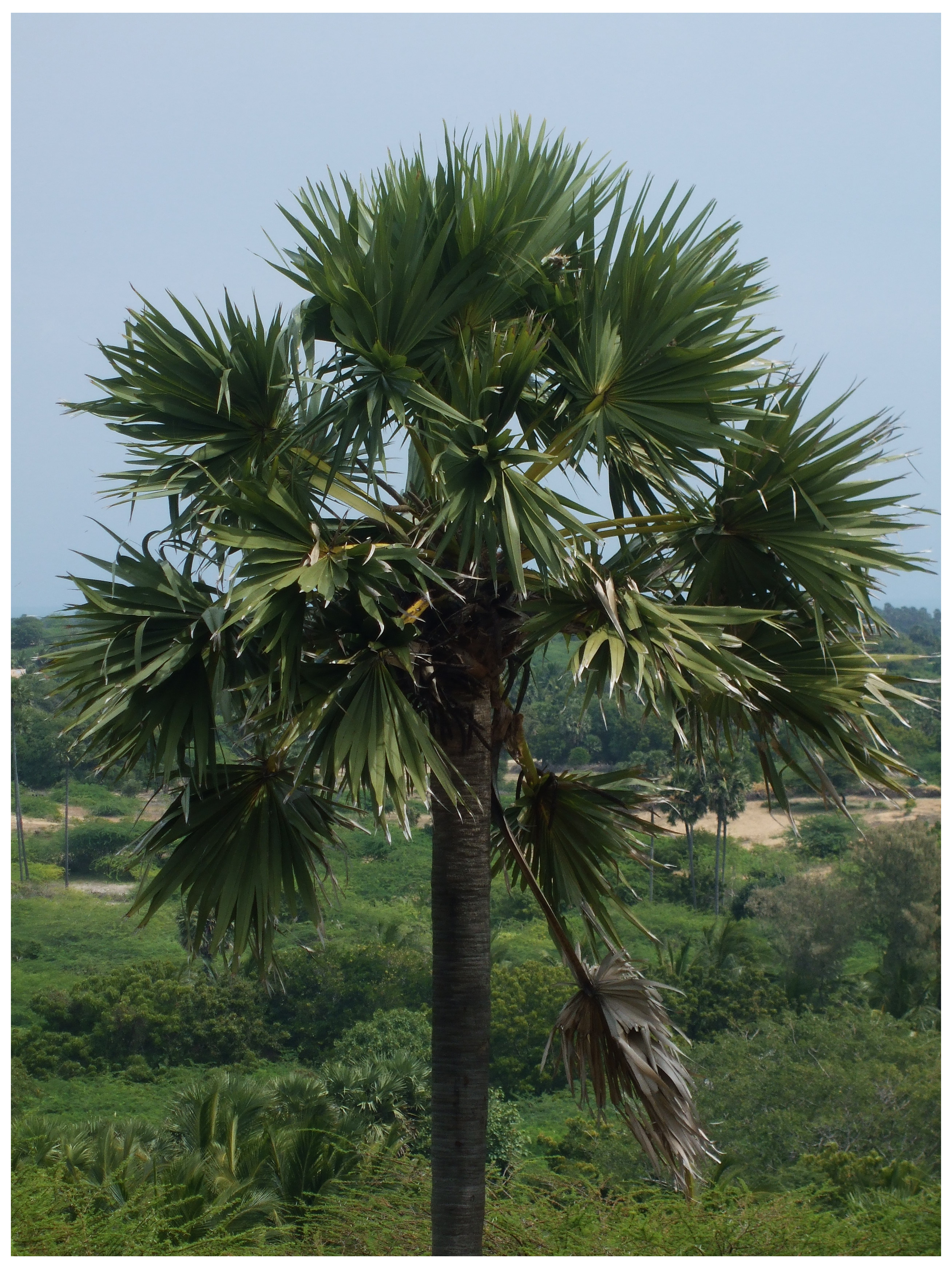 Asian Palmyra palm, Toddy palm, Sugar palm or Cambodian palm